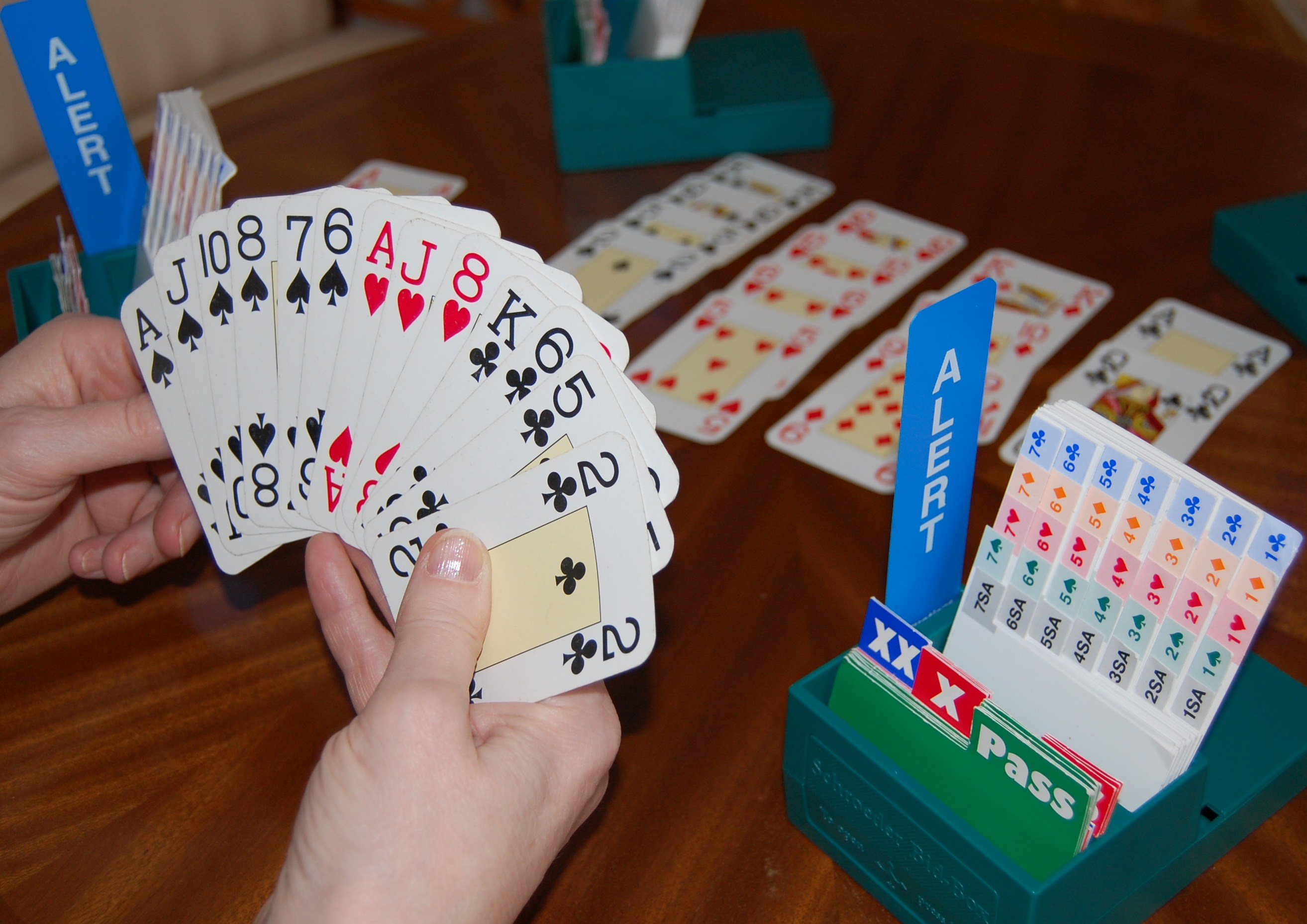 Bridge